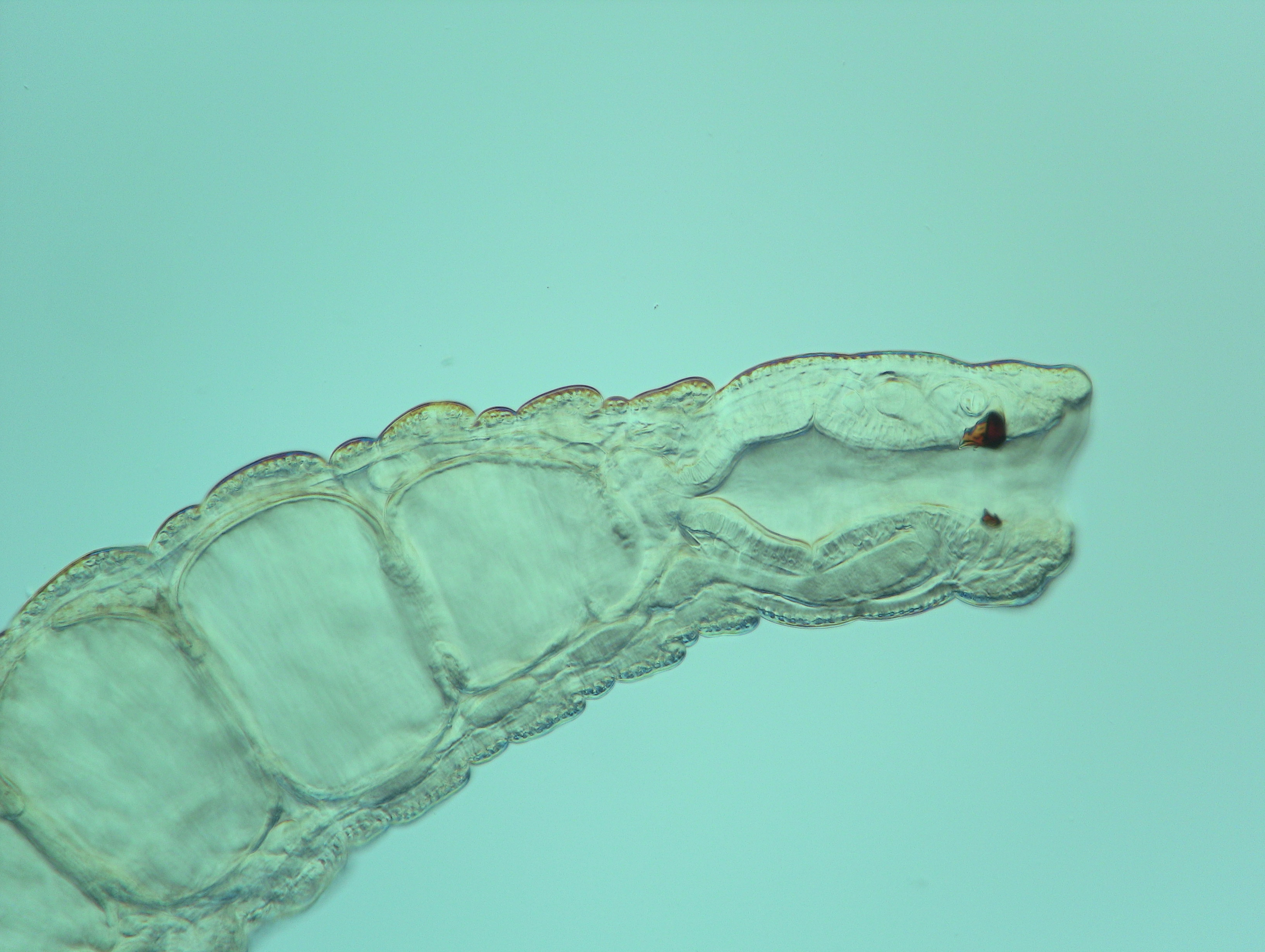 Light microscopy of a crayfish worm showing the dark "jaws" used to glean food from the crayfish body.